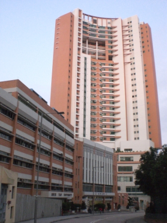 Campus of Hong Kong Shue Yan University